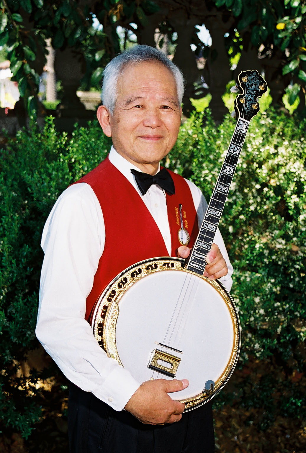 Charlie Tagawa, Music Director of the Peninsula Banjo Band, Cupertino, California